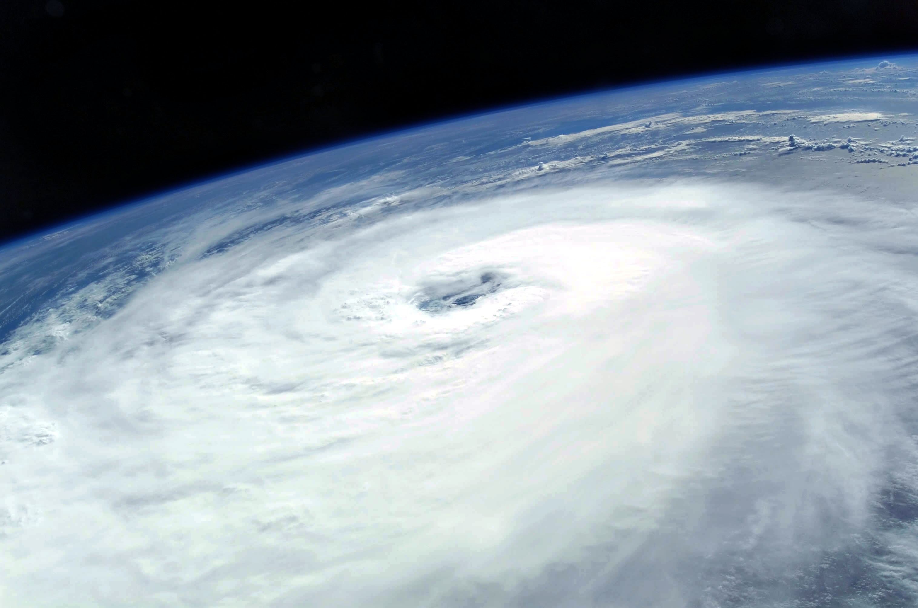 Hurricane Helene was captured at 18:20:43 GMT, Sept. 17, 2006 with a digital still camera, equipped with a 20-35mm lens, by one of the crewmembers aboard the Space Shuttle Atlantis. The center of the storm was located near 20.9 degrees north latitude and 49.0 degrees west longitude, while moving northwest. At the time the photo was taken, the sustained winds were 90 nautical miles per hour with gusts to 110 nauticalmiles per hour.